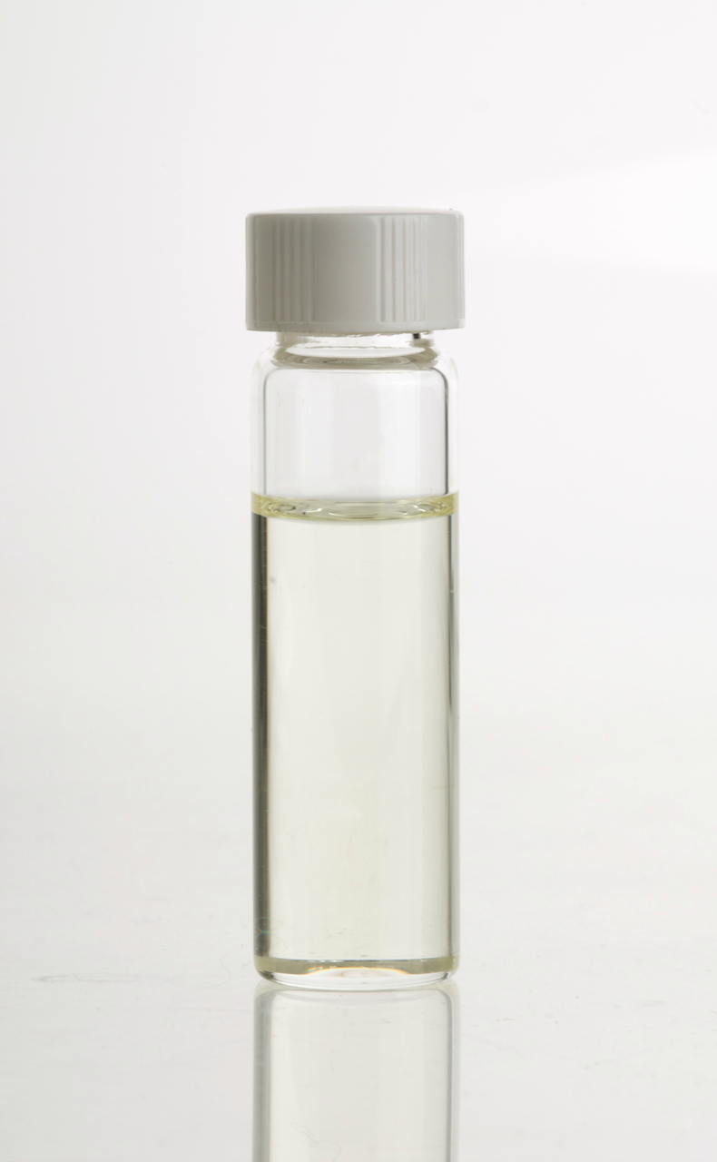 Glass vial containing Cardamon (Cardamom) Essential oil